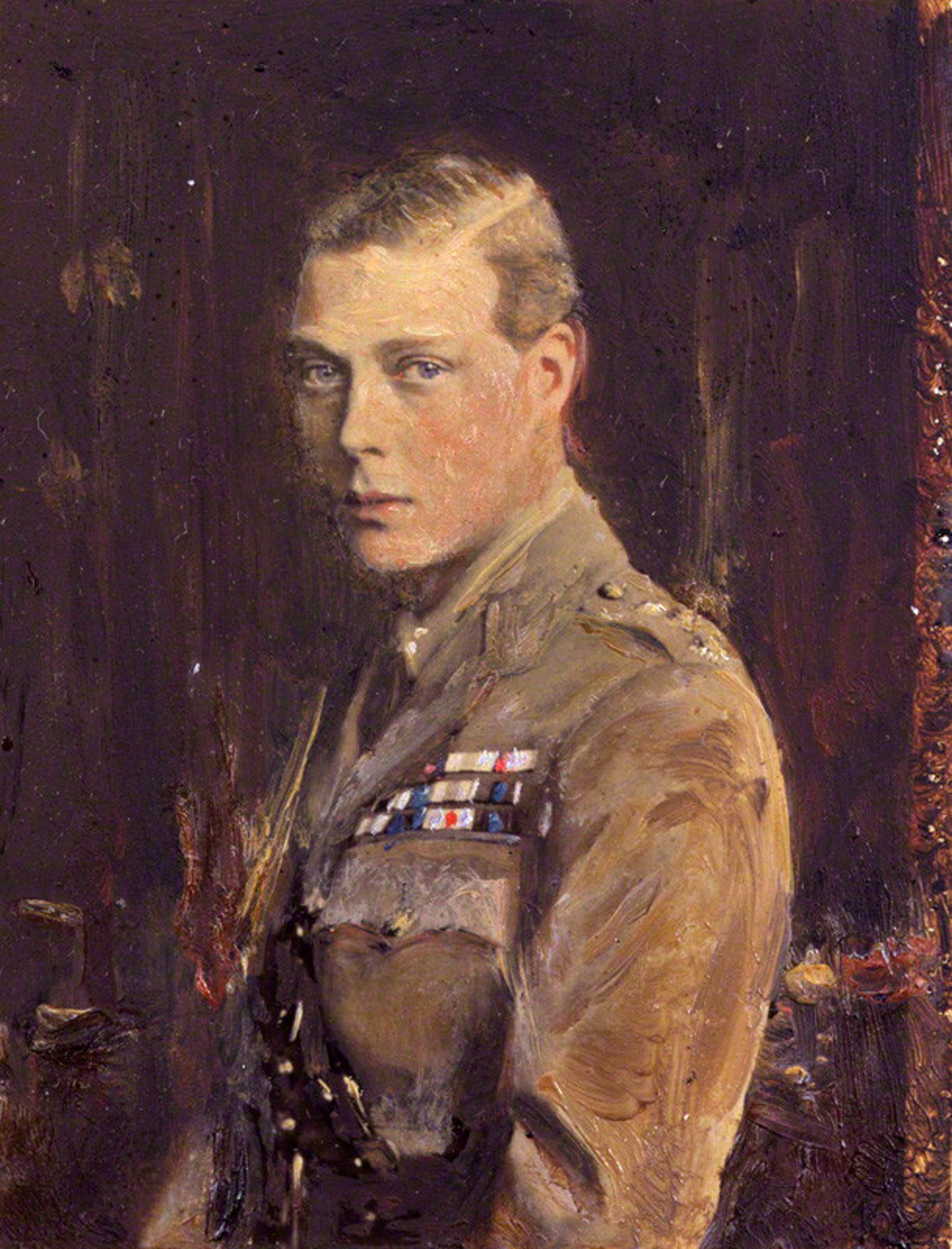 A portrait from circa 1920 of Edward Albert Christian George Andrew Patrick David, (23 June 1894 – 28 May 1972), who was King of the United Kingdom and the Dominions of the British Empire, and Emperor of India, from 20 January 1936 until his abdication on 11 December 1936. Later he was given the title of Duke of Windsor.